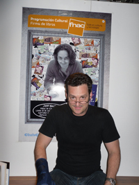 Jeff mimicking himself sitting in front of the poster in Barcelona. 2010